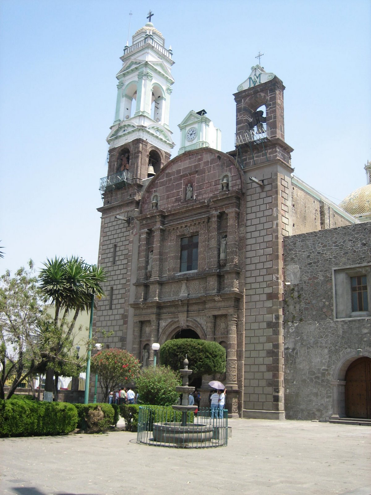 Church of Zacatelco